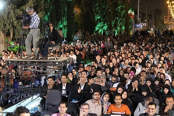 Saadi-Shiraz commemoration ceremony